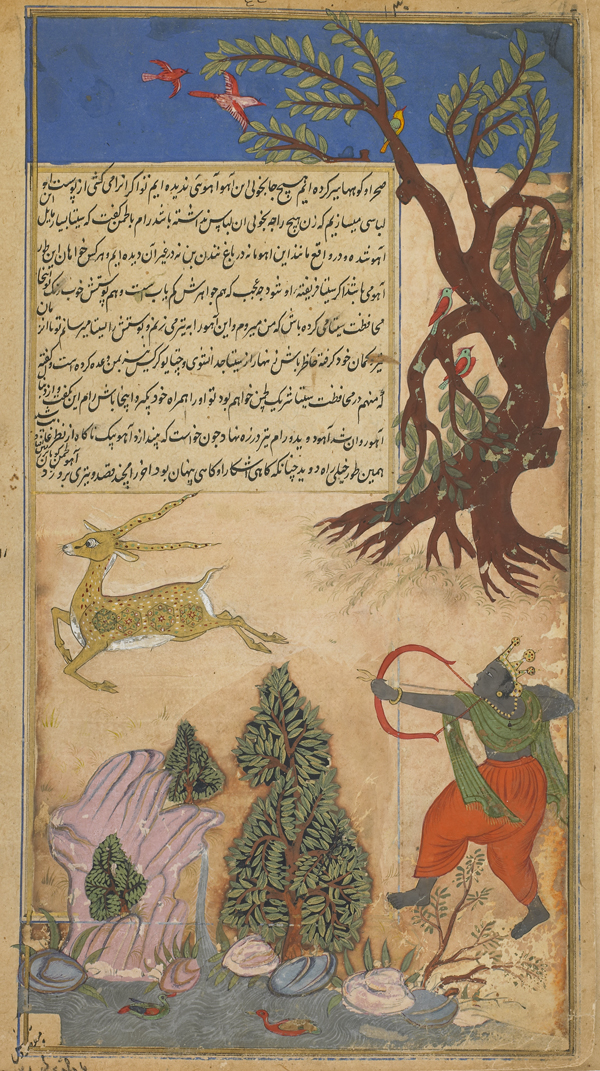 Folio from the Ramayana of Valmiki (The Freer Ramayana), Vol. 1, folio 128; recto: text; verso: Rama stalks the demon Marica, who has assumed the form of a golden deer 1597-1605 Fazl , (Indian, Mughal dynasty Opaque watercolor, ink, and gold on paper H: 26.3 W: 13.8 cm Northern India Gift of Charles Lang Freer F1907.271.128